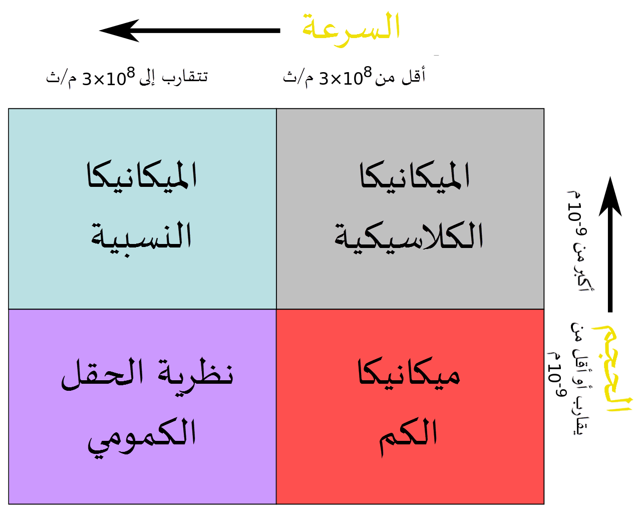 Which physics theory is applicable in which domain